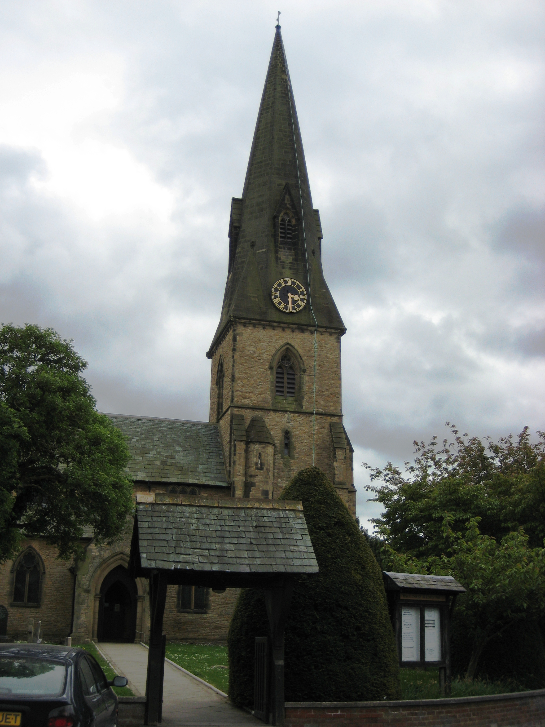 All Saint's Church, East Riding of Yorkshire, East Riding of Yorkshire, England.